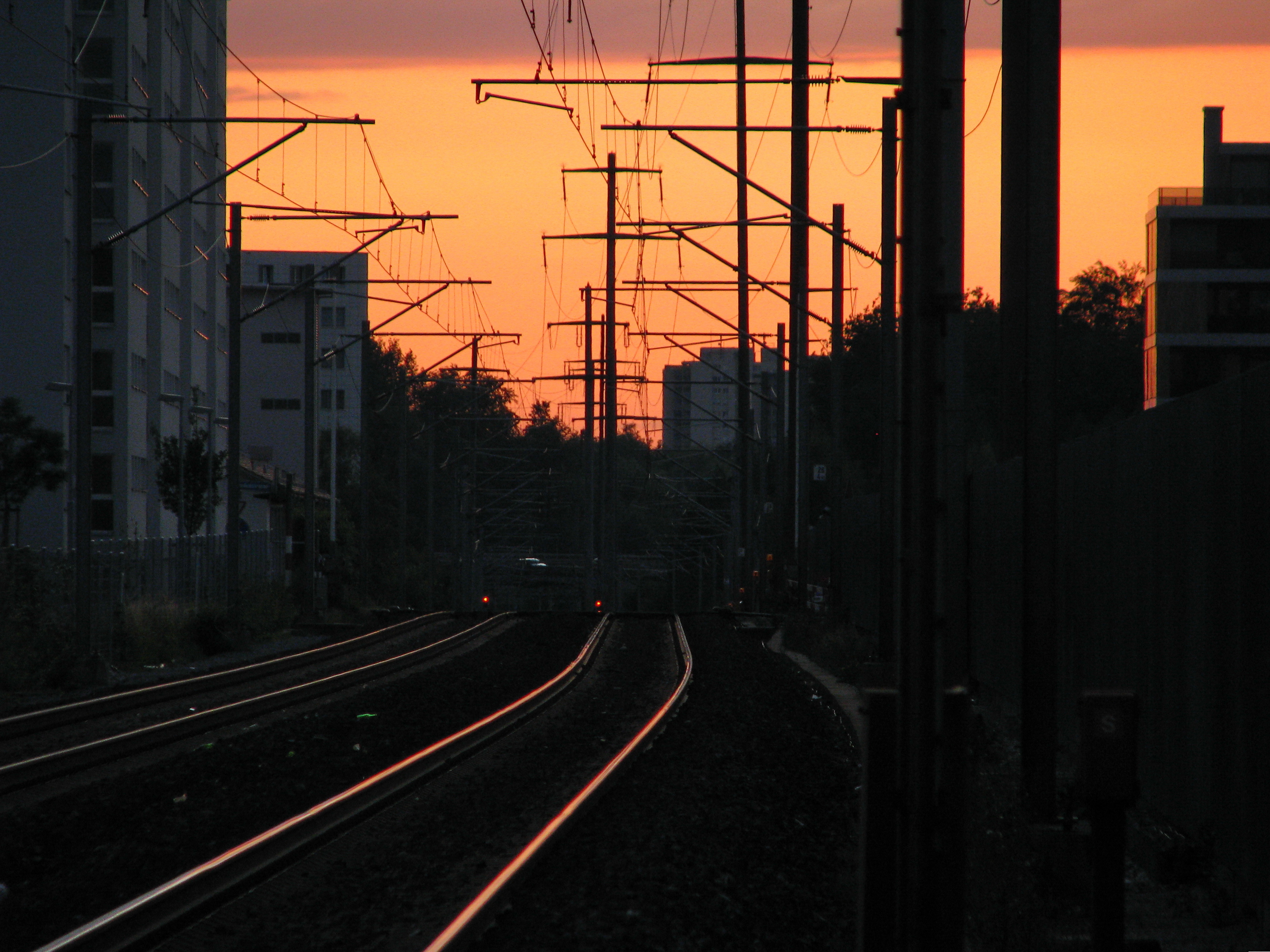 Tracks of the S-Bahn Zürich line S6 at Zürich-Affoltern train station